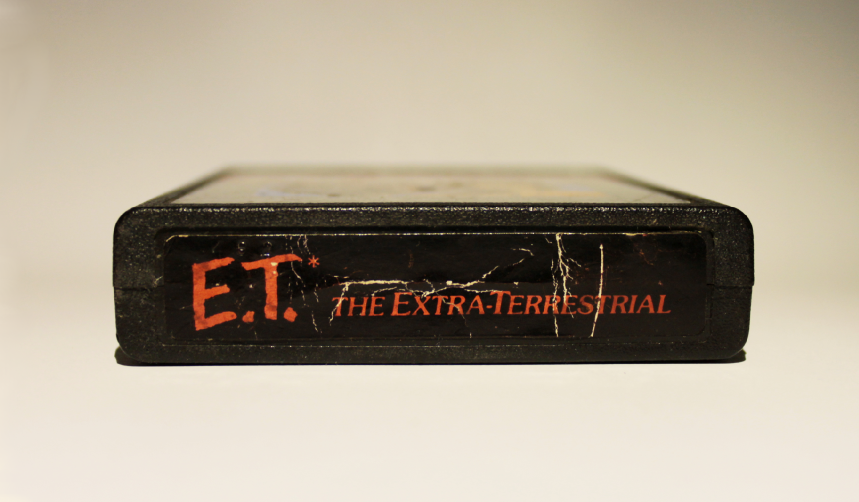 Atari E.T. the Extra-Terrestrial Cartridge